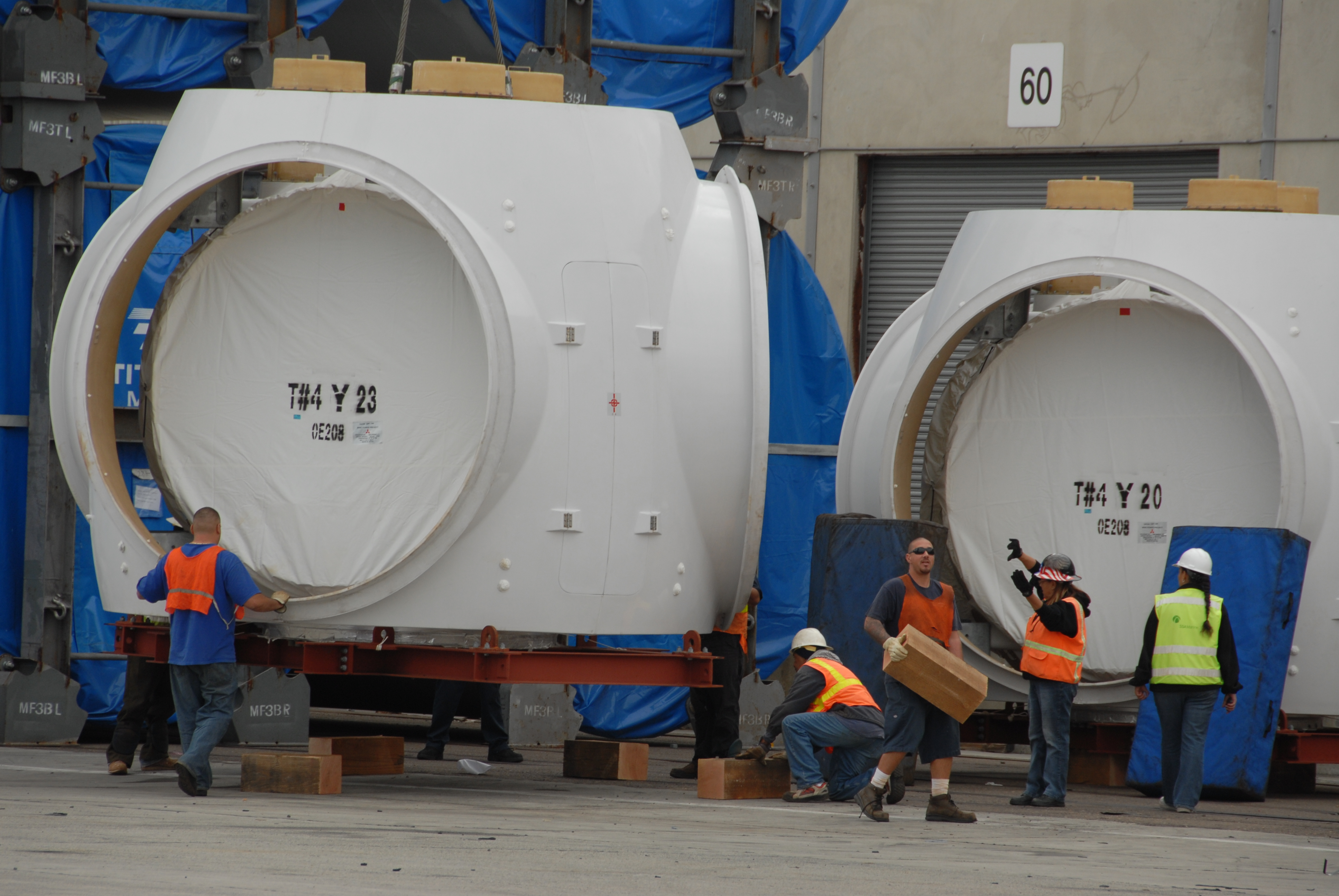 200-ton nacelles, manufactured by Mitsubishi Heavy Industries in Japan, are offloaded at the Port of San Diego's Tenth Avenue Marine Terminal.